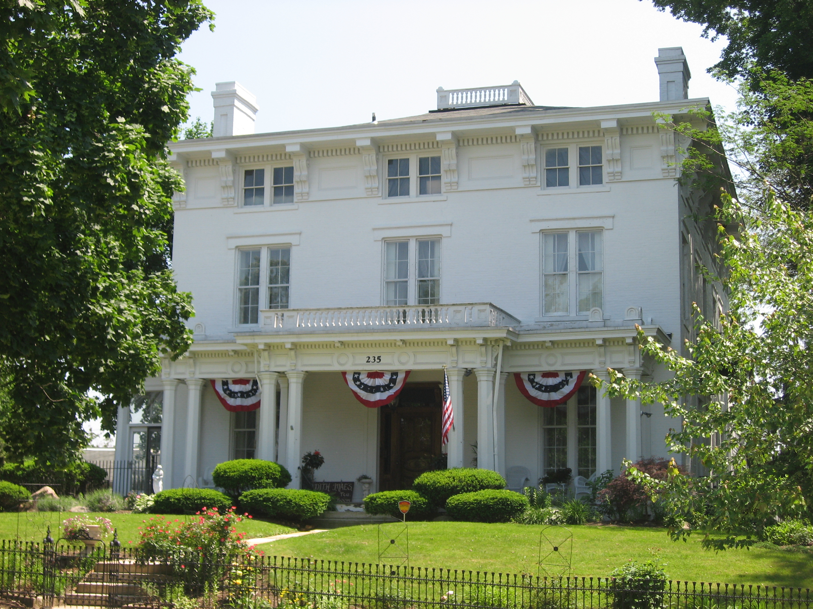 Front of the house at 235 E. Second Street in Xenia, Ohio, United States. It is part of the East Second Street District, a historic district that is listed on the National Register of Historic Places. Former home of American poet/politician Coates Kinney.